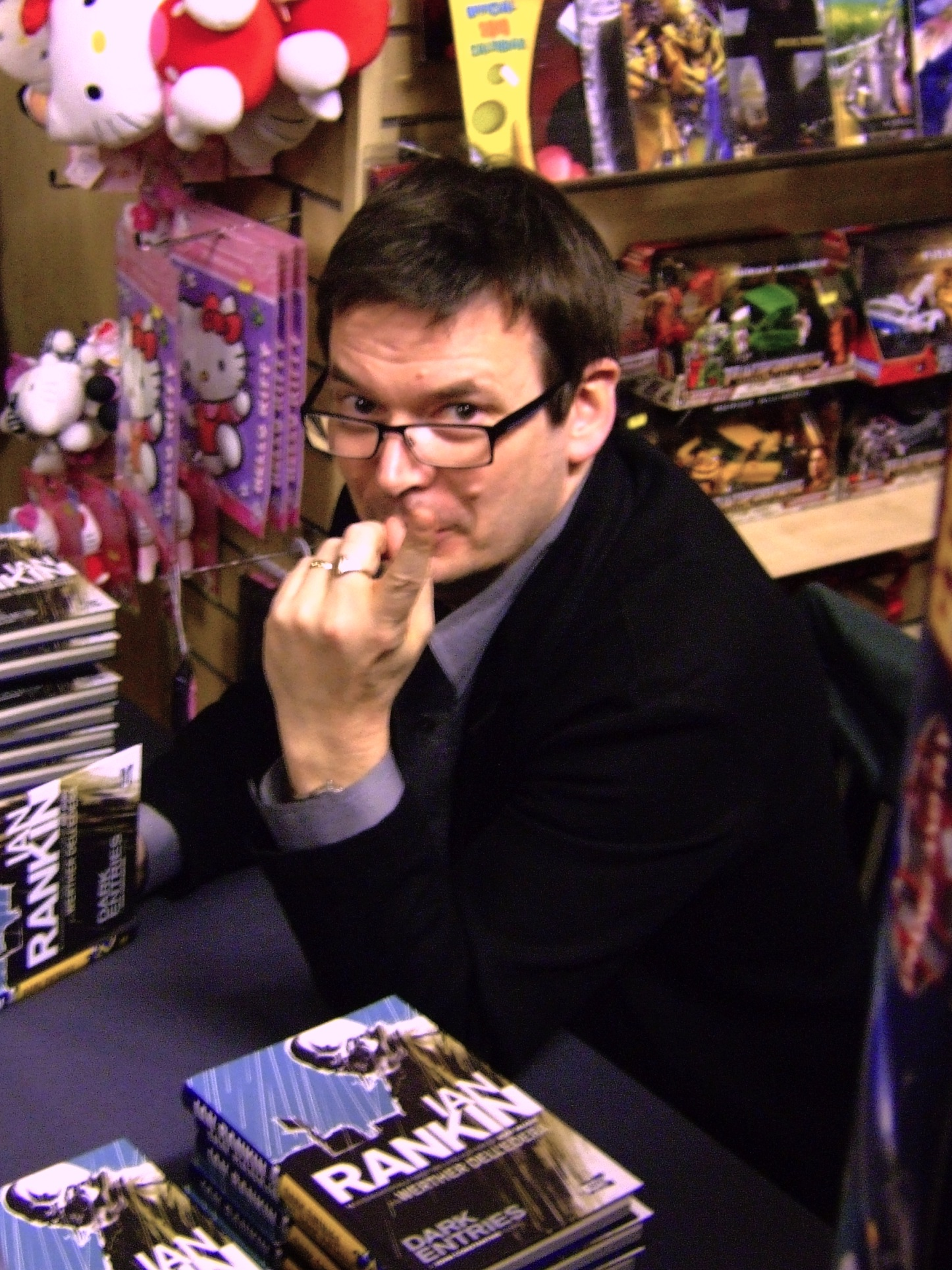 Ian Rankin signing his Dark Entries Hellblazer graphic novel in the Edinburgh branch of Forbidden Planet International on Edinburgh's Southbridge